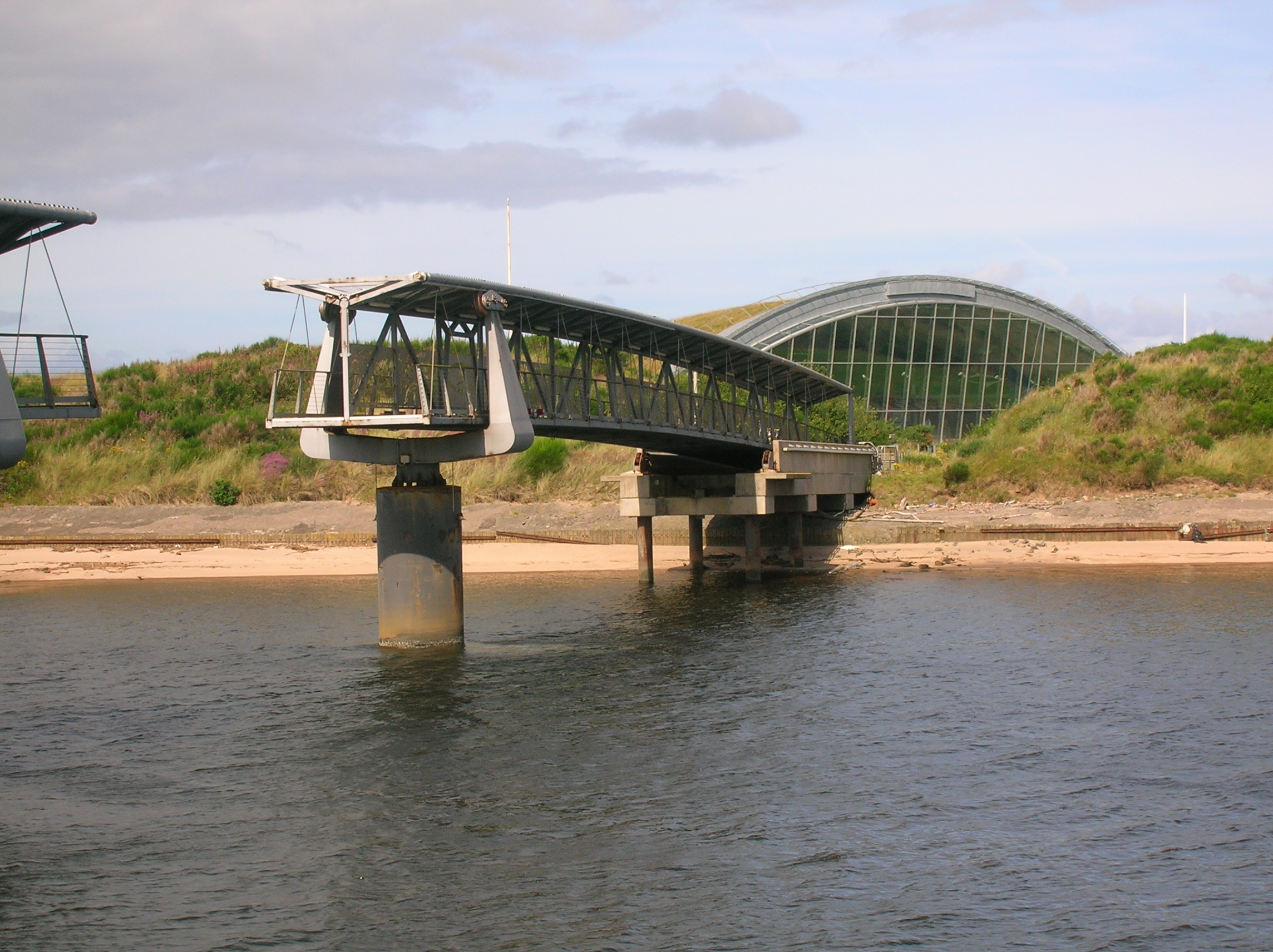 The Big Idea building (now closed) and footbridge at Irvine harbour, North Ayrshire, Scotland. It is known locally as the bridge to nowhere